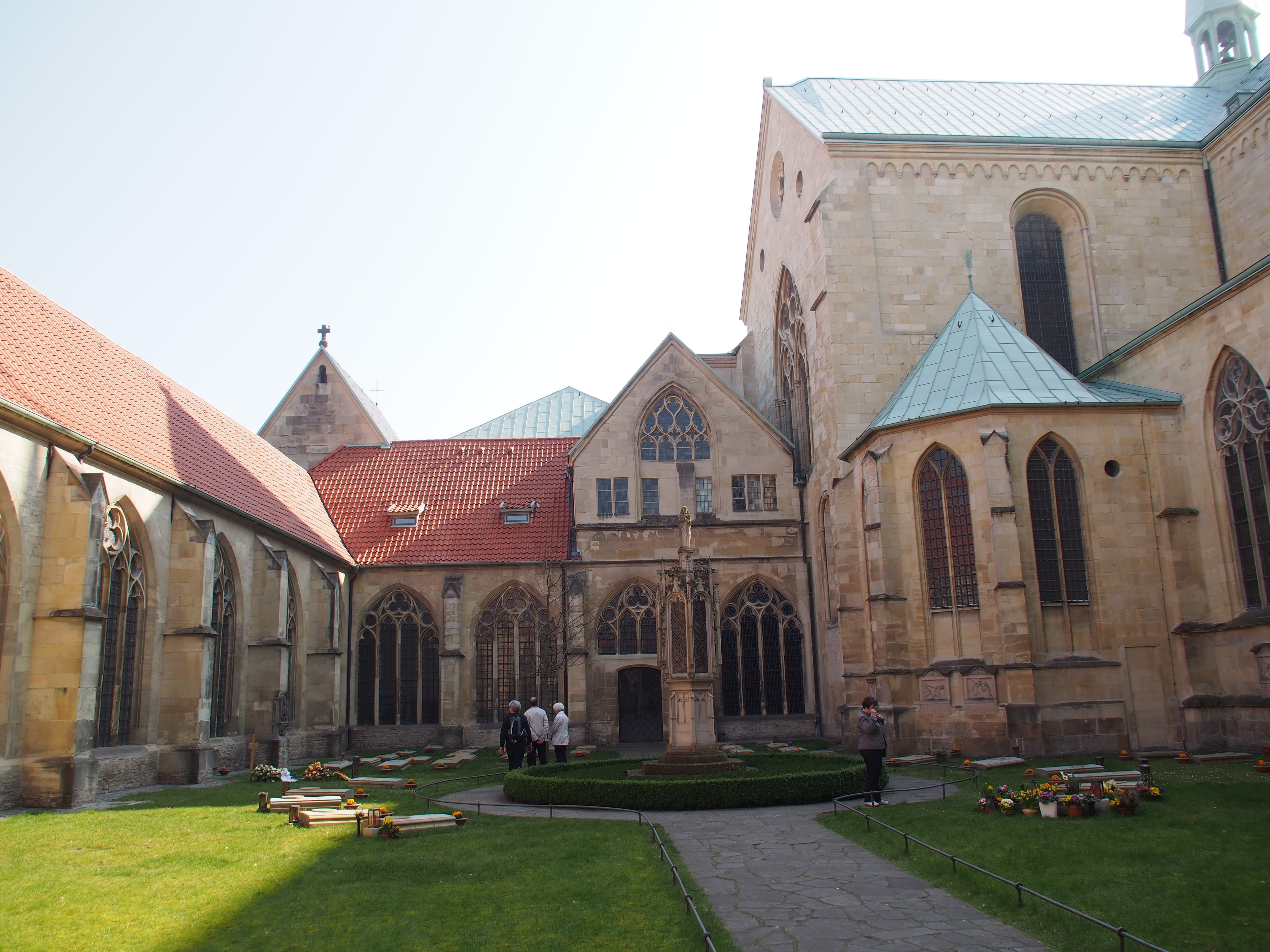 The so called "Kreuzgang" in the cathedral of Münster, Westphalia, Germany